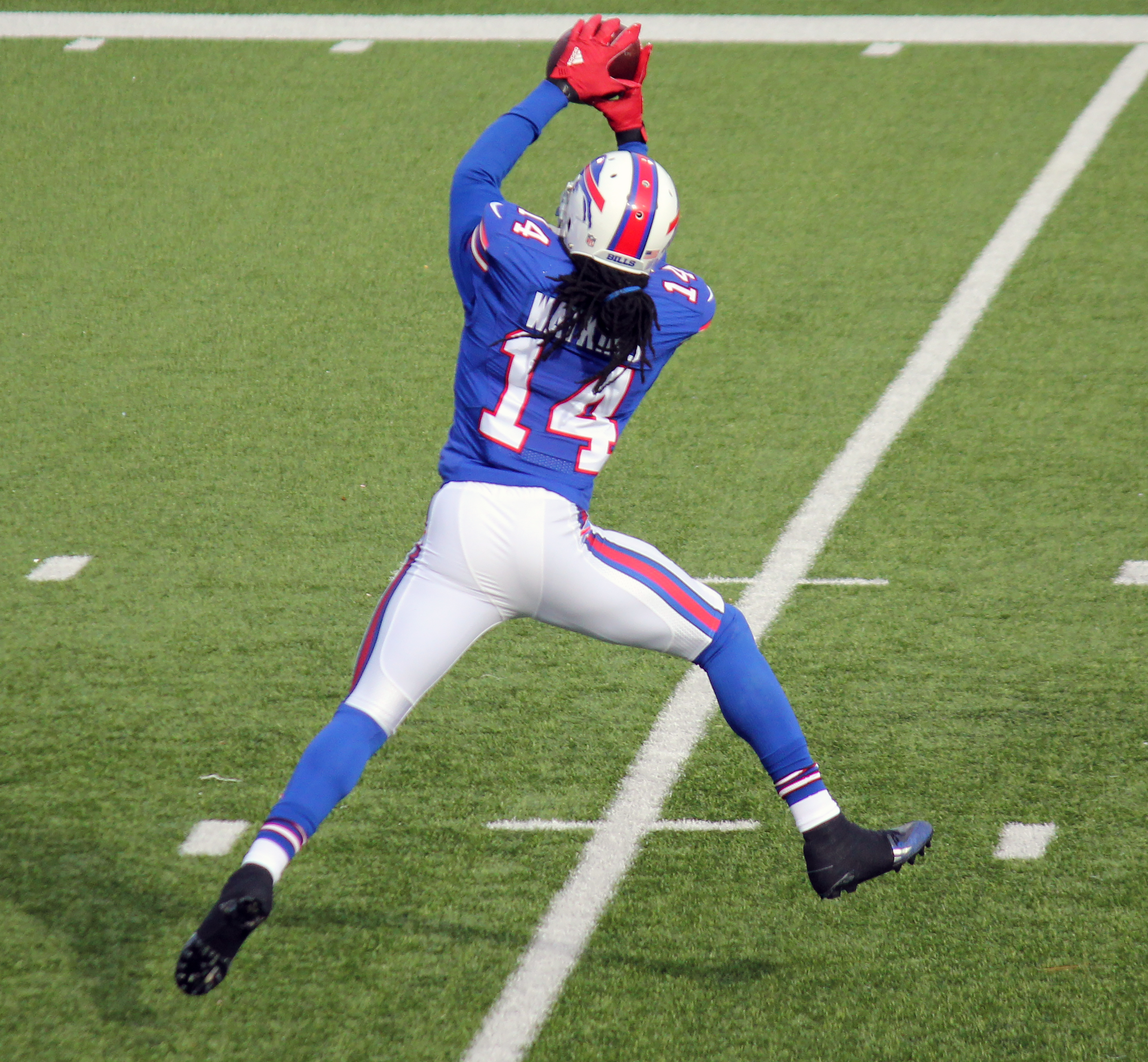 Sammy Watkins vs Texans 12/06/15